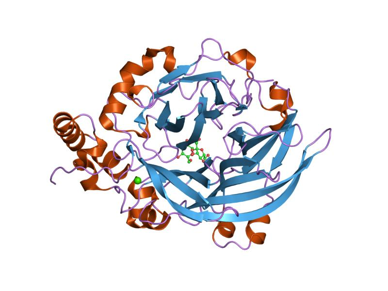 Cartoon representation of the molecular structure of protein registered with 1pt2 code.